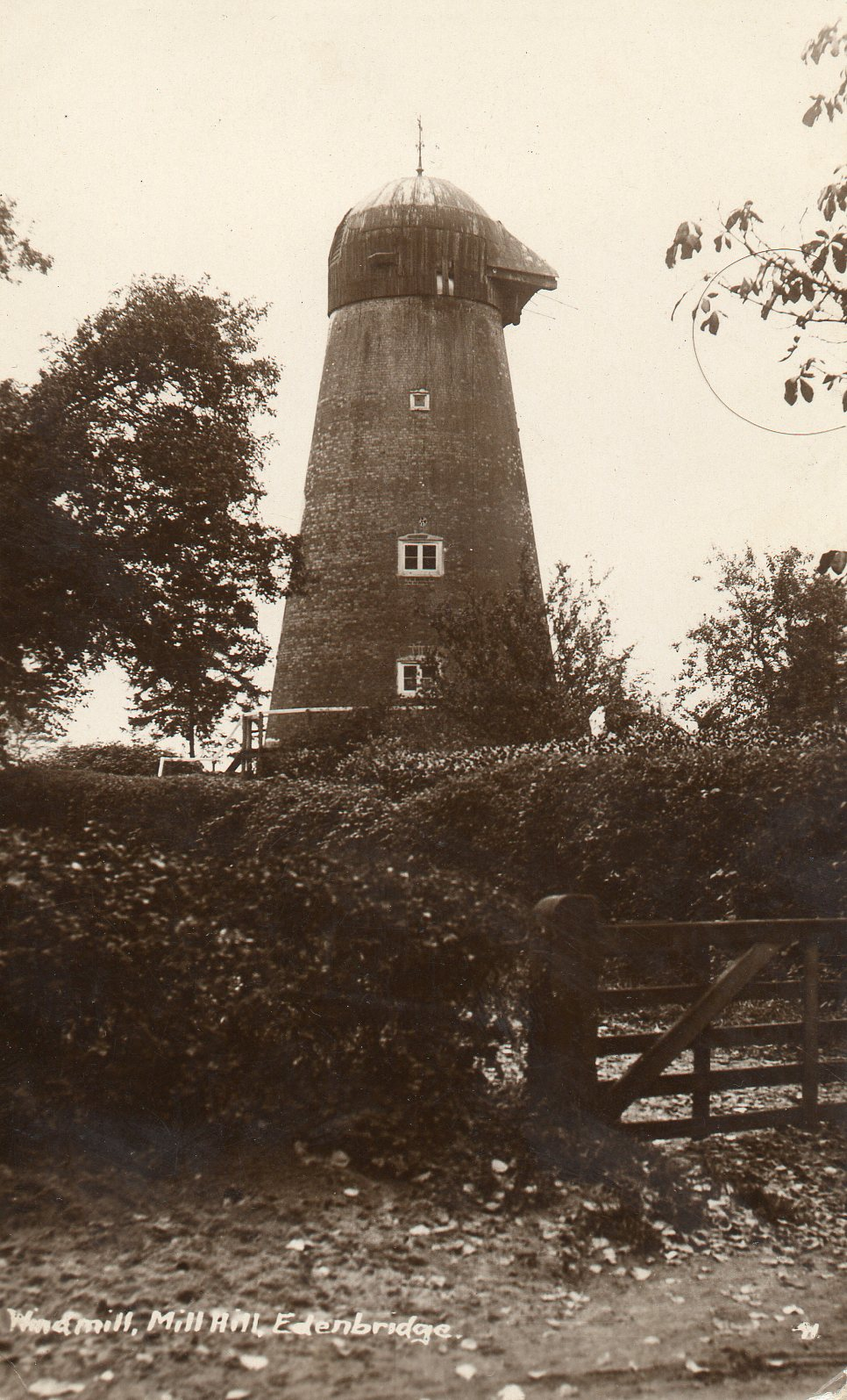 Edenbridge Windmill. Postcard franked 18 July 1917.